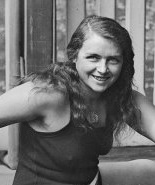 Mercedes Gleitze or Mercedes Carey (18 November 1900 – 9 February 1981) was a British professional swimmer. Picture taken in 1930s in Australia